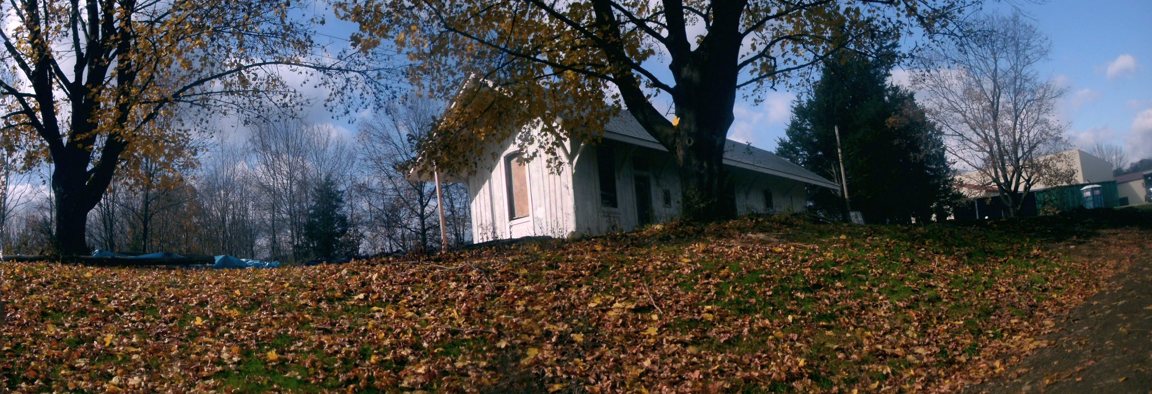 The former New York, Susquehanna and Western Railroad station in Sparta, New Jersey. The station is seen from a nearby business in November 2011.